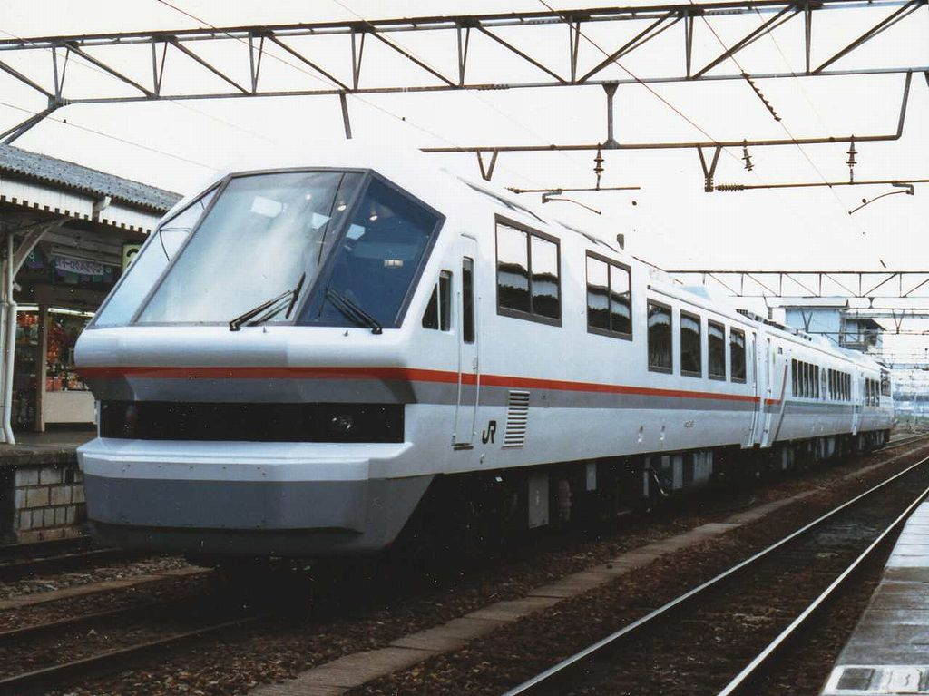 JR Central KiHa 80 series "Resort Liner" DMU set